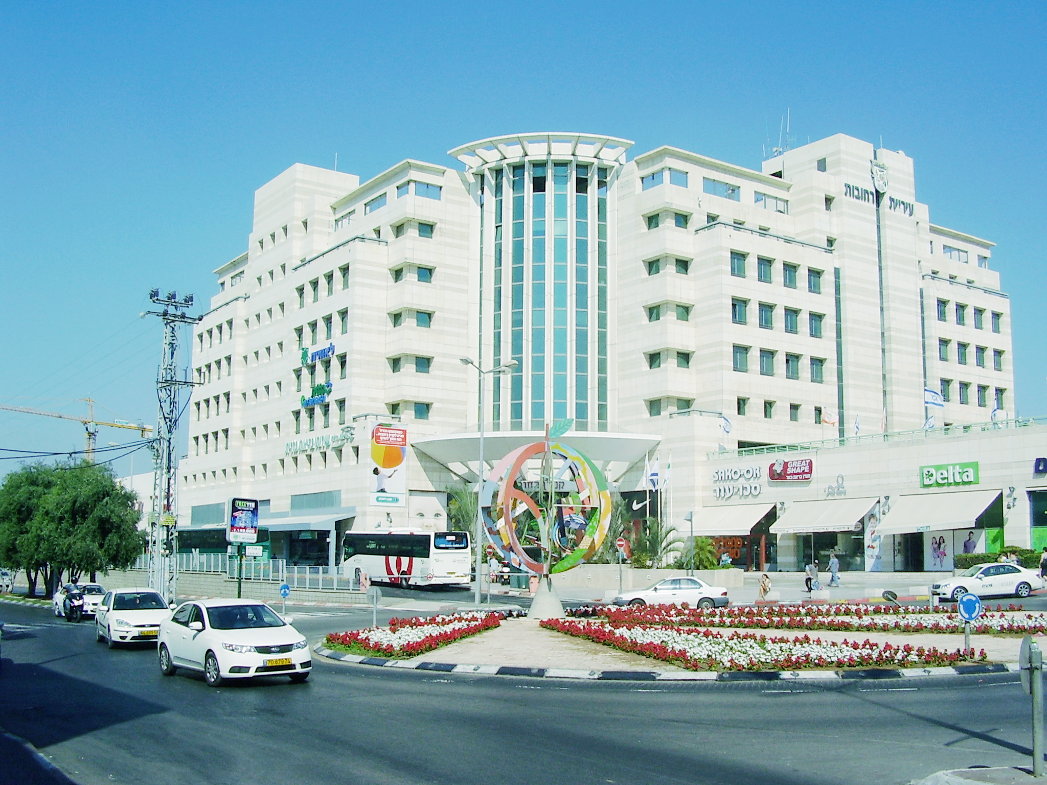 Rehovot Mall and Municipality